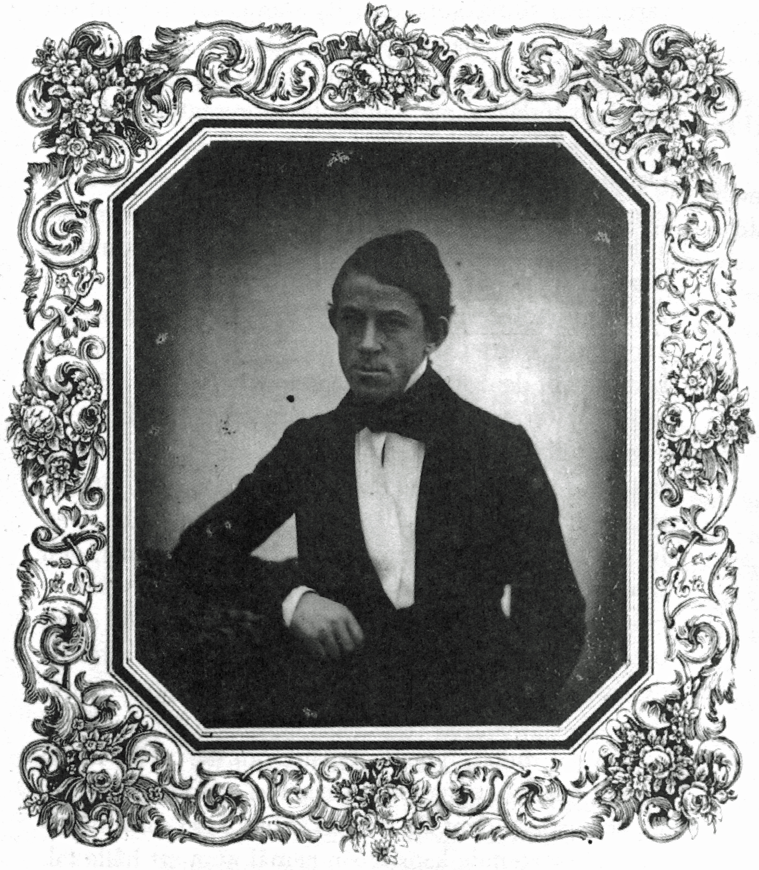 Finnish industrialist Feodor Kiseleff.